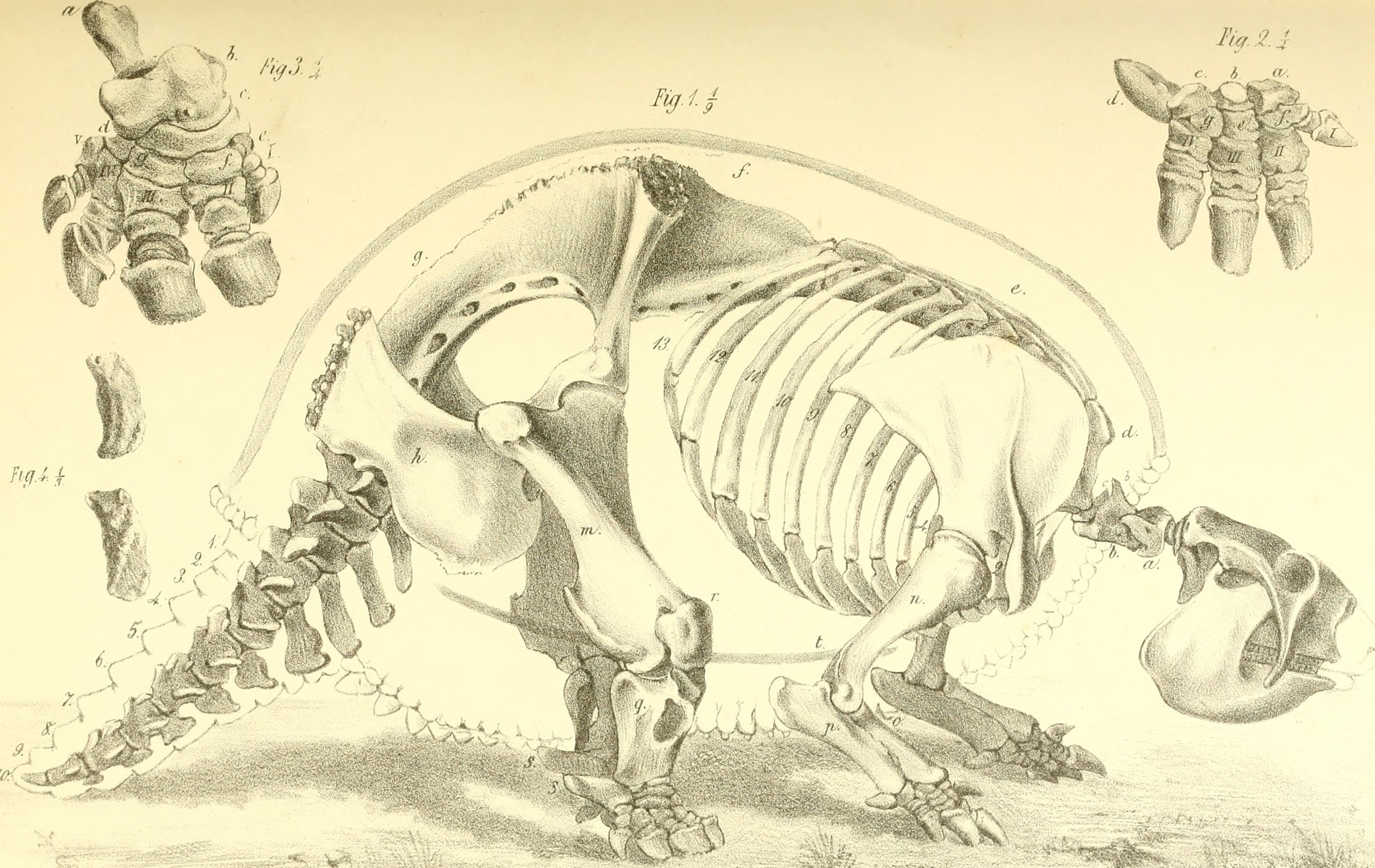 Title: Anales del Museo Público de Buenos Aires Year: 1864 (1860s) Authors: Museo Público de Buenos Aires; Sociedad Paleontológica de Buenos Aires. Actas de la Sociedad Paleontológica de Buenos Aires; Museo Público de Buenos Aires. Boletin de Museo Público de Buenos Aires, 1868-1871 Subjects: Natural history; Paleontology Publisher: Buenos Aires : El Museo Text Appearing Before Image: ' Text Appearing After Image: 4 ■; '^ ^